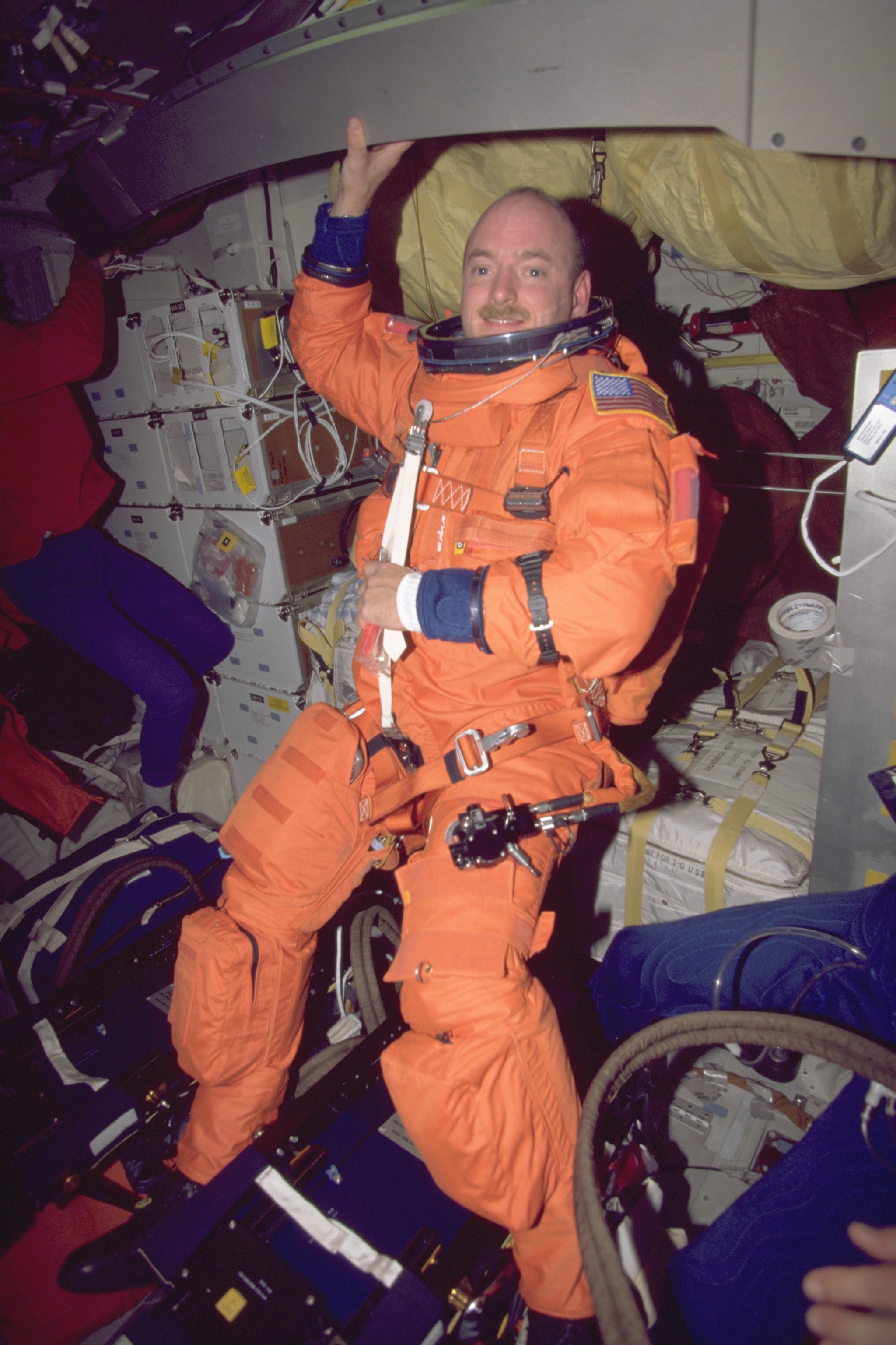 Astronaut Scott J. Kelly, pilot on STS-103, has just donned his partial-pressure ascent and entry escape suit as preparations are made onboard for Discovery's landing.